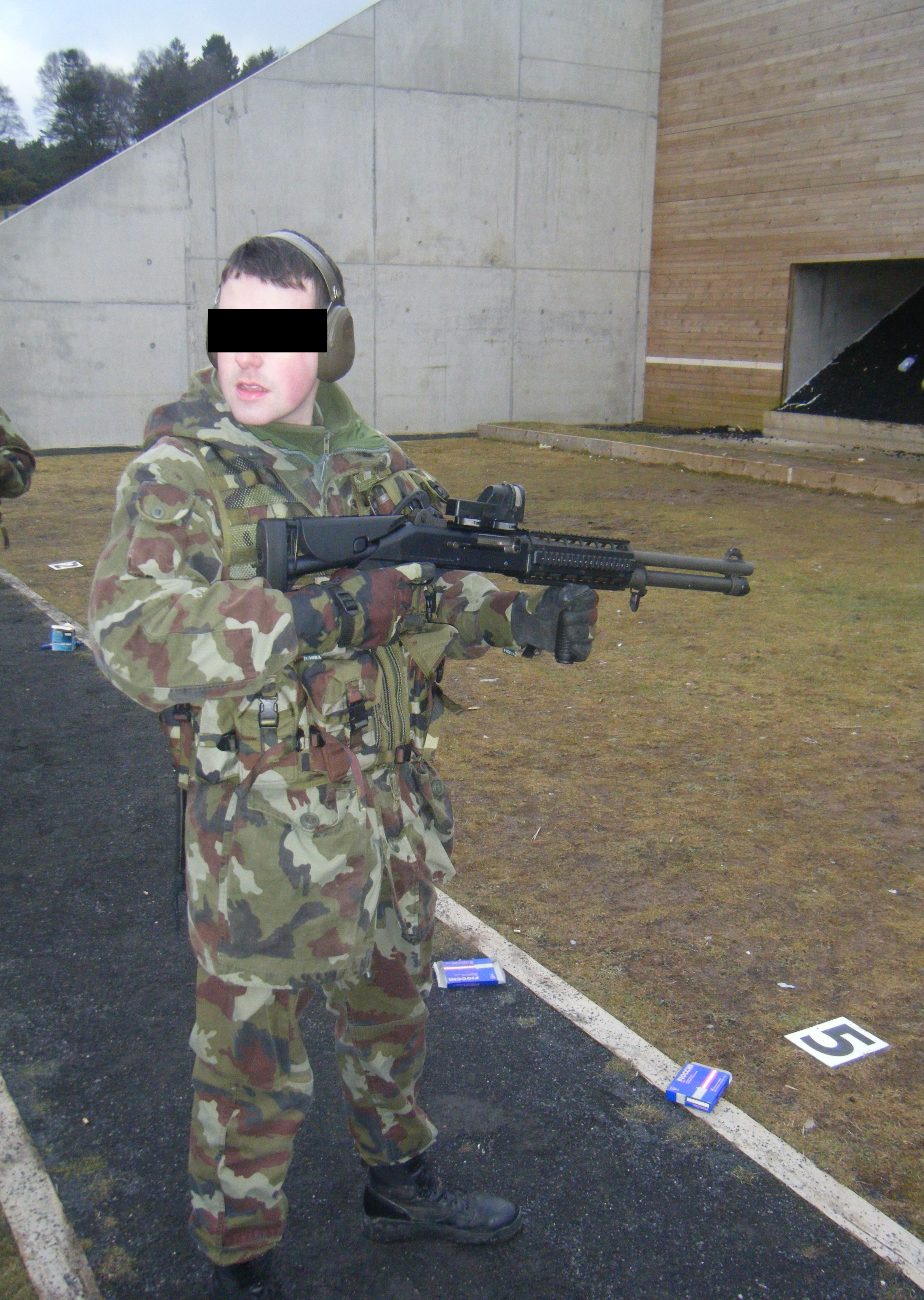 An Irish Army soldier demonstrating the Benelli M4